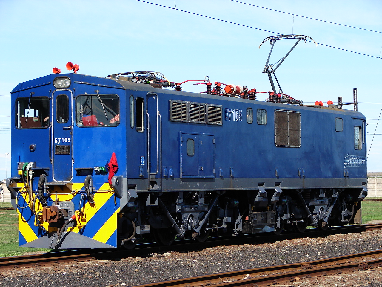 SAR Class 7E2 Series 1 E7165Location: Swartkops, Port Elizabeth, Eastern Cape